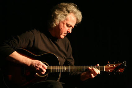 Brian Willoughby in Milan